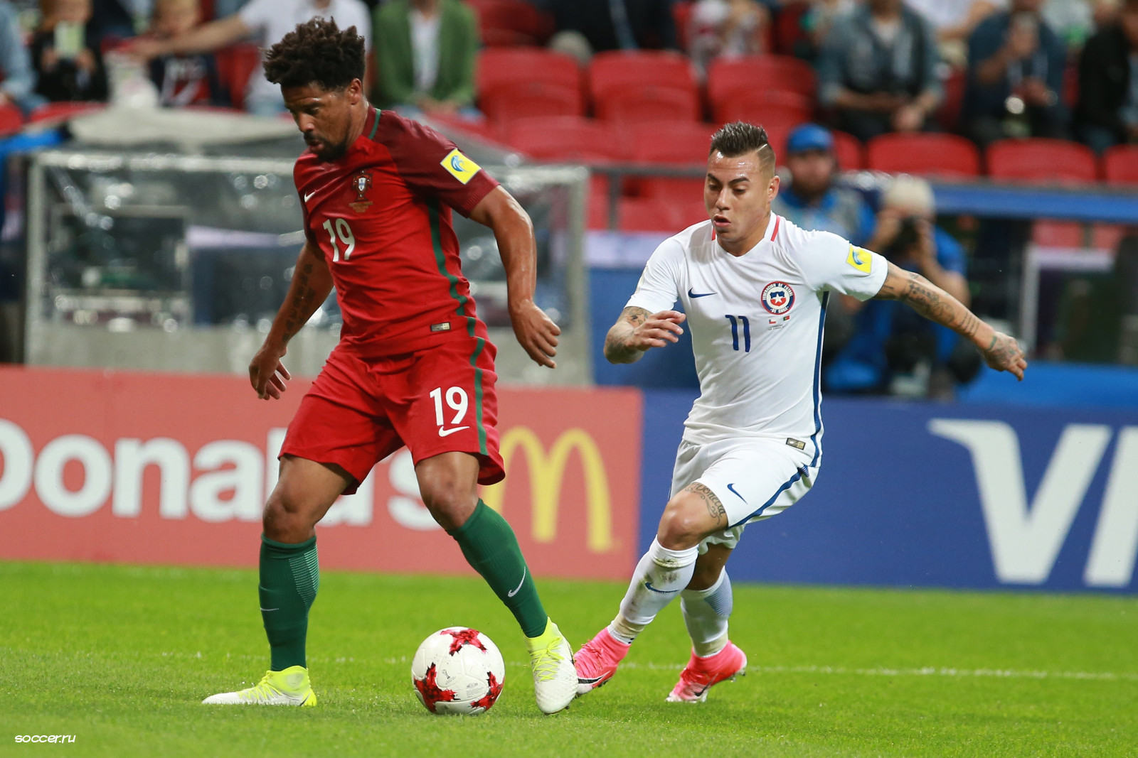 Portugal - Chile, 28 Jun 2017